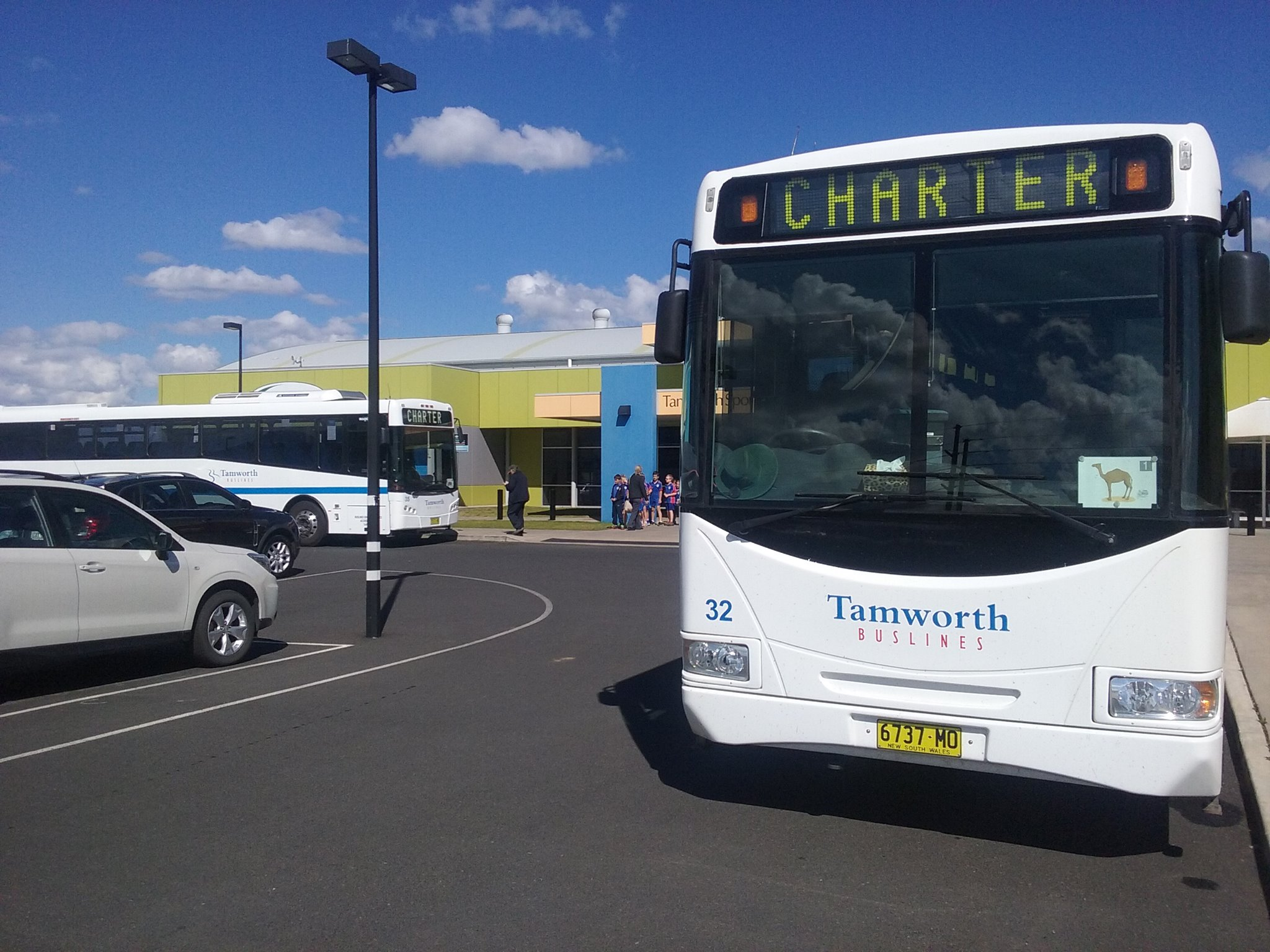 Tamworth Buslines Bus 32 (Volvo B7R Chassis, Bustech SBV Bodied)